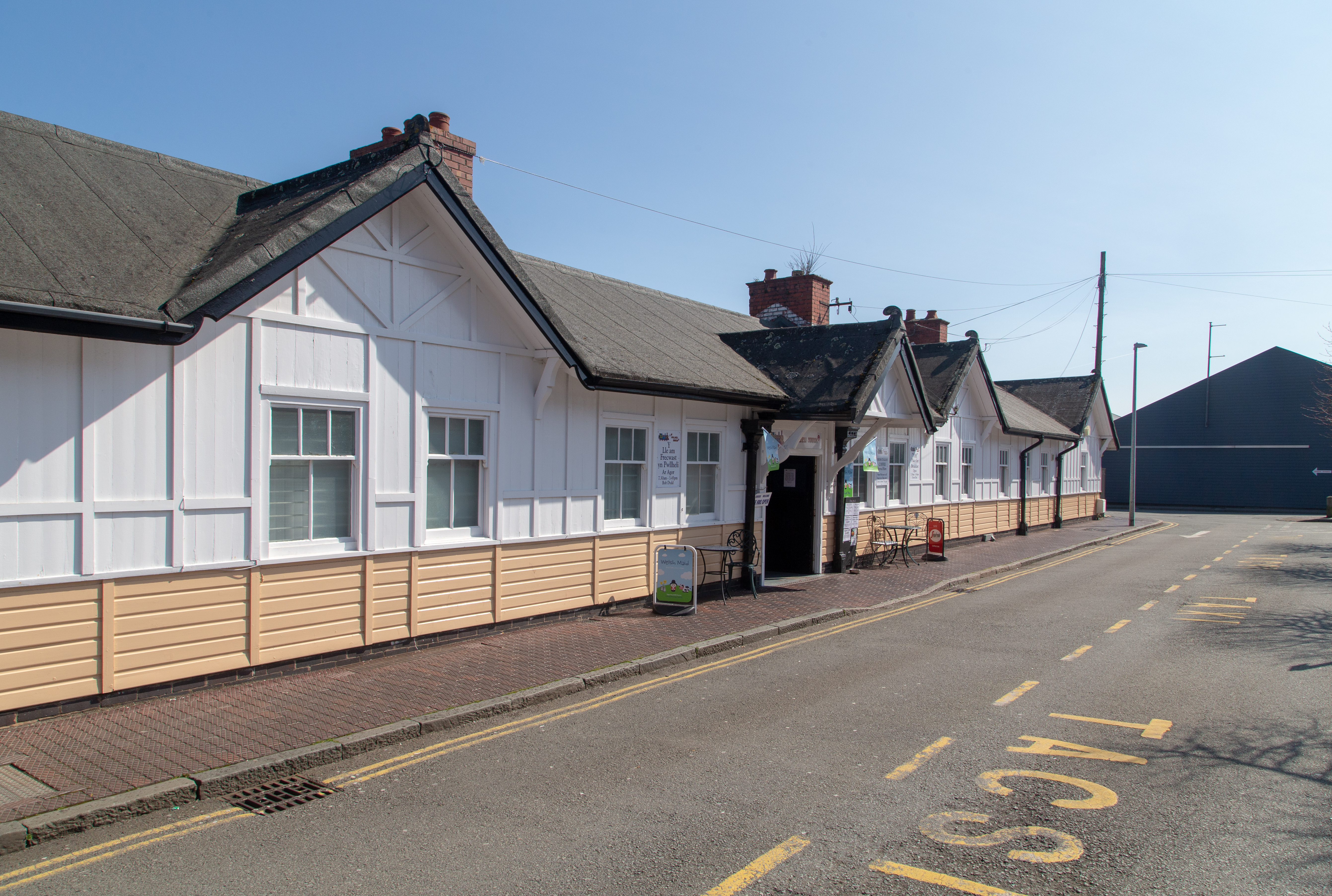 Pwllheli Railway Station